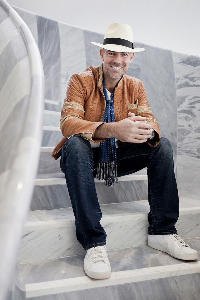 Mark Humphrey on the staircase at St James Theatre, London